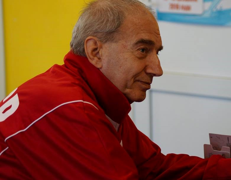 Vitold Brushtunov